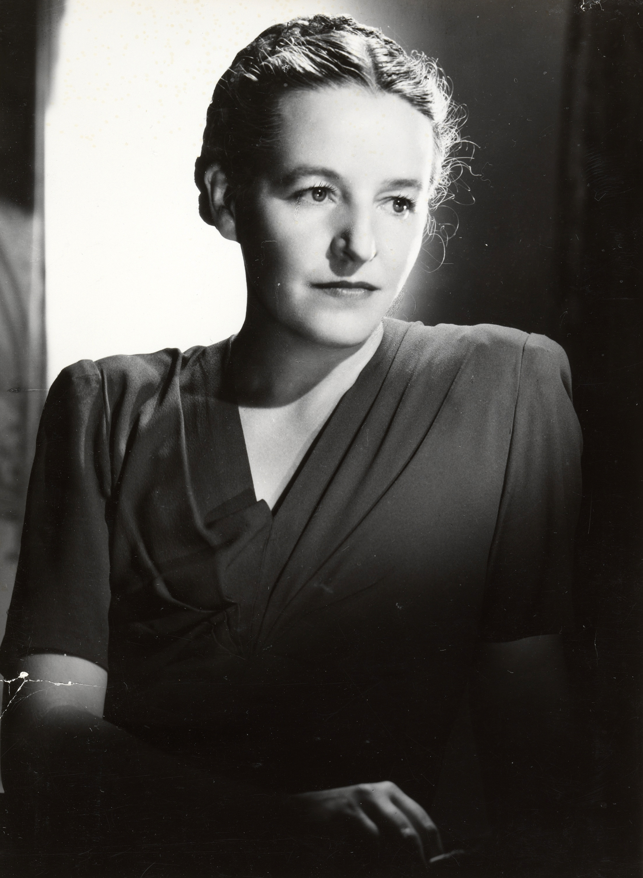 Format: Photograph Notes: Dymphna Cusack (1902-1981) was an Australian writer and foundation member of the Australian Society of Authors. Find more detailed information about this photographic collection: .au/item/itemDetailPaged.aspx?itemID=432052 Search for more great images in the State Library's collections: .au/search/SimpleSearch.aspx From the collection of the State Library of New South Wales